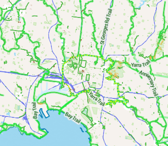 Map of the bike paths of the inner part of Melbourne. Rendered using TileMill, using a style I created. Data is all OpenStreetMap.